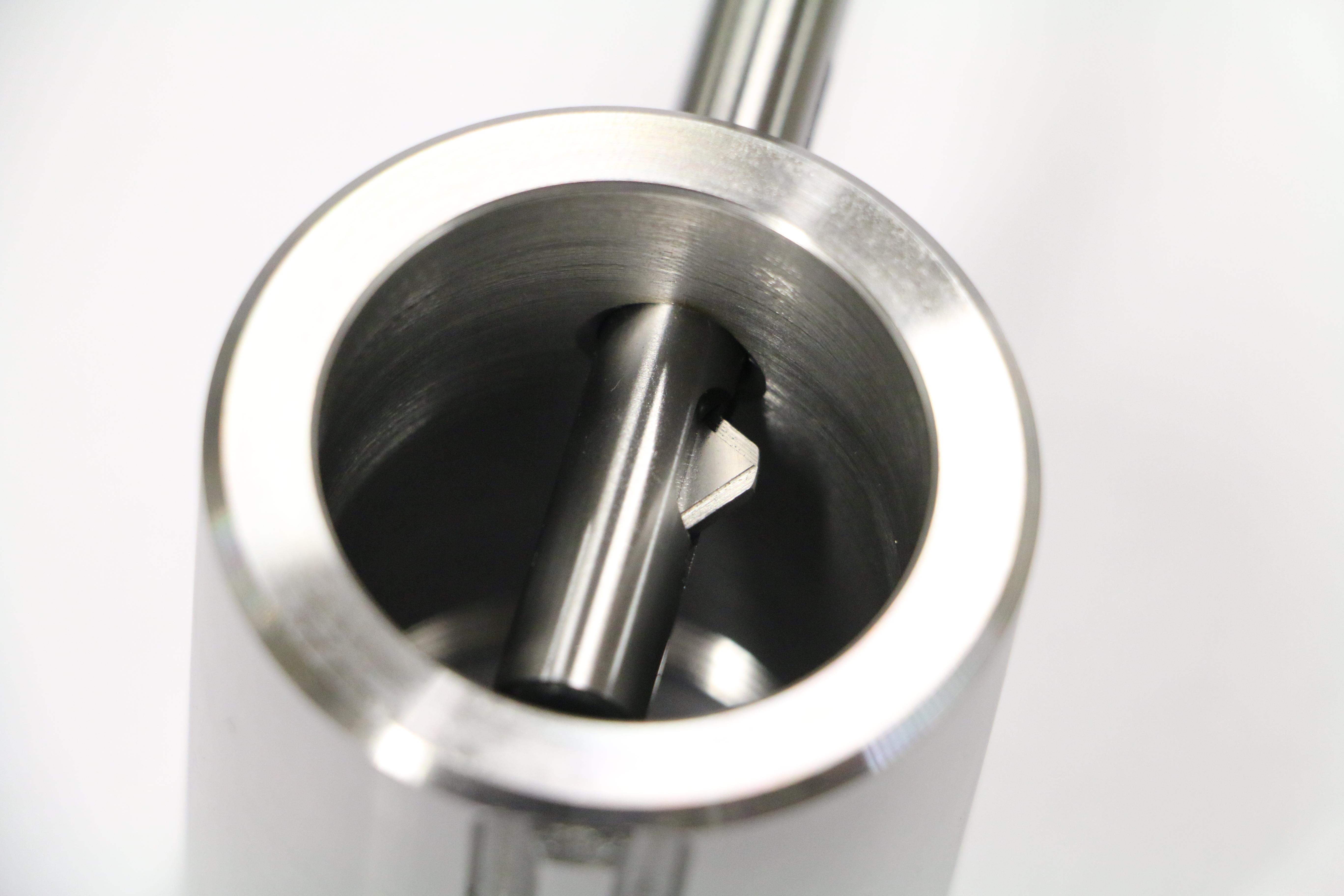 A great example of a mechanical deburring tool is shown here with the 'Burraway' tool, that can deburr both the front and the back of the hole.